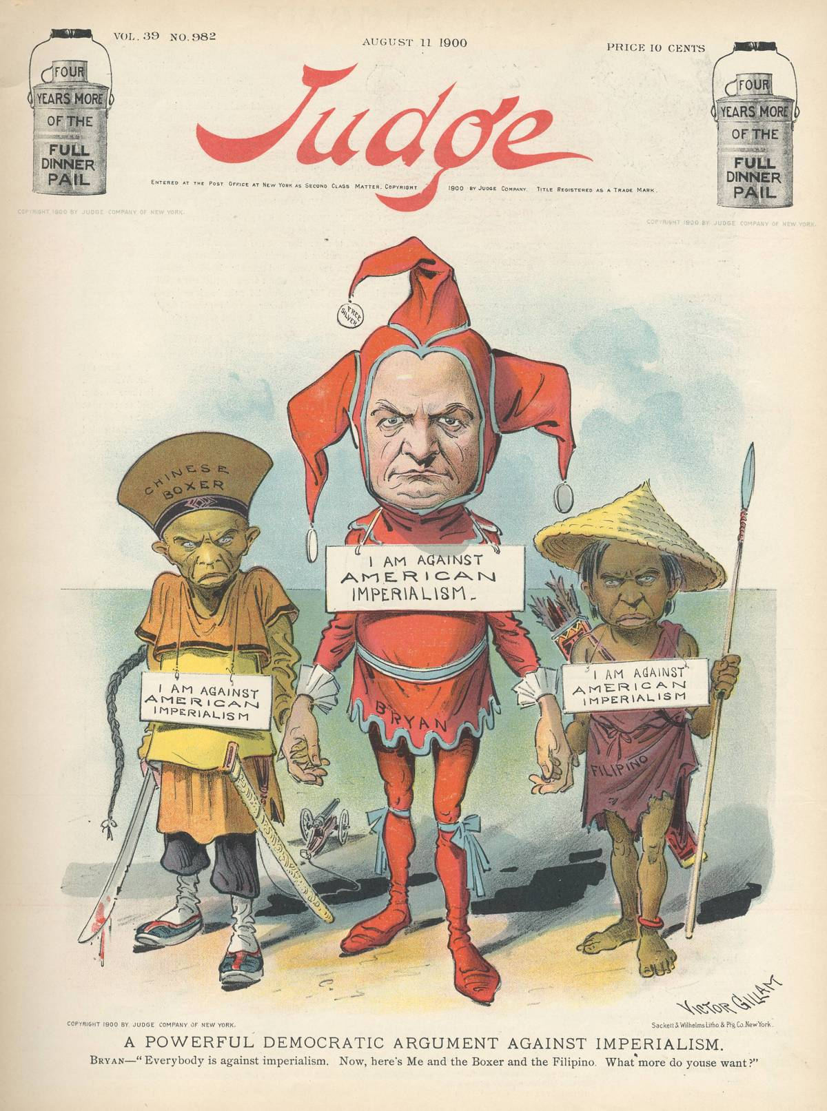 11 August 1900 Judge magazine cover cartoon. "A POWERFUL DEMOCRATIC ARGUMENT AGAINST IMPERIALISM". “Bryan- ‘Everybody is against imperialism. Now, here’s Me and the Boxer and the Filipino. What more do youse want?” Caricature shows William Jennings Bryan dressed as a jester wearing a sign, "I AM AGAINST AMERICAN IMPERIALISM"; he is flanked by two sinister figures with hostile expressions wearing similar signs; the one on the left is labeled "Chinese Boxer" and holds a blood-dripping sword; the one on the right labeled "Filipino" in ragged clothes carrying a spear.